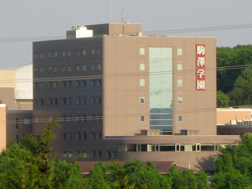 Komazawa Women's University located in Inagi-City, Tokyo, Japan.